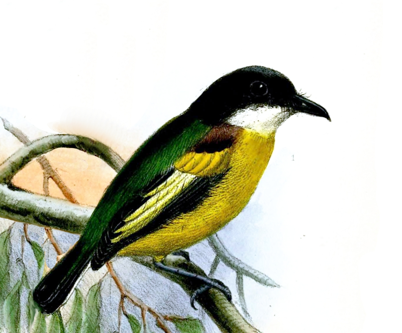 Golden-winged Tody-flycatcher, adult (center right)